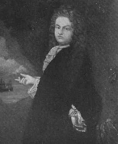 Frederick Philipse, first lord of Philipsburg Manor